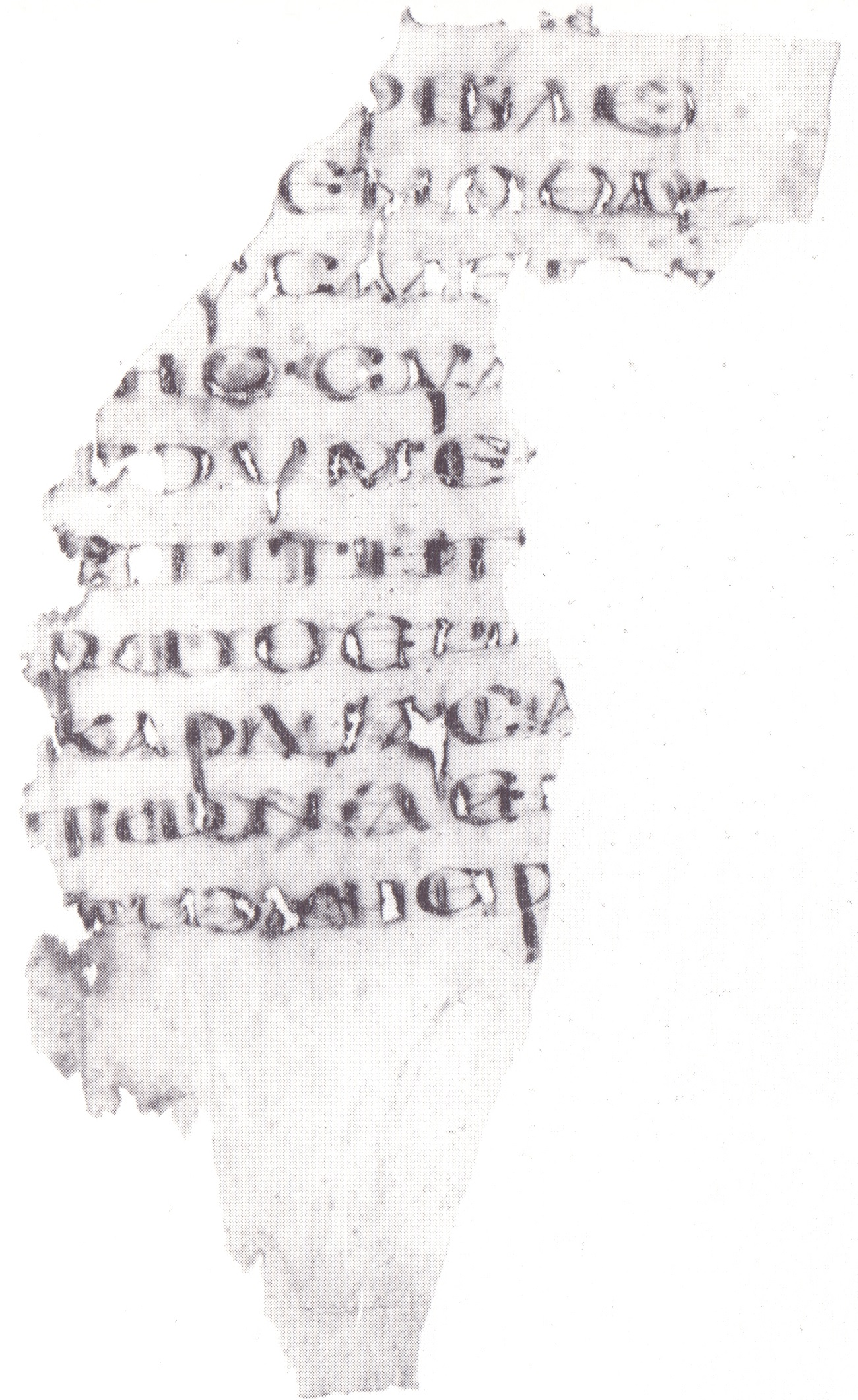 Uncial 0213 (Gregory-Aland), P. Vindob. G. 1384, manuscript of the New Testament with the text of Mark 3:2-3